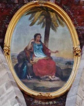 Cathedral Basilica of Saint Clement, Tenancingo, Mexico State, Mexico